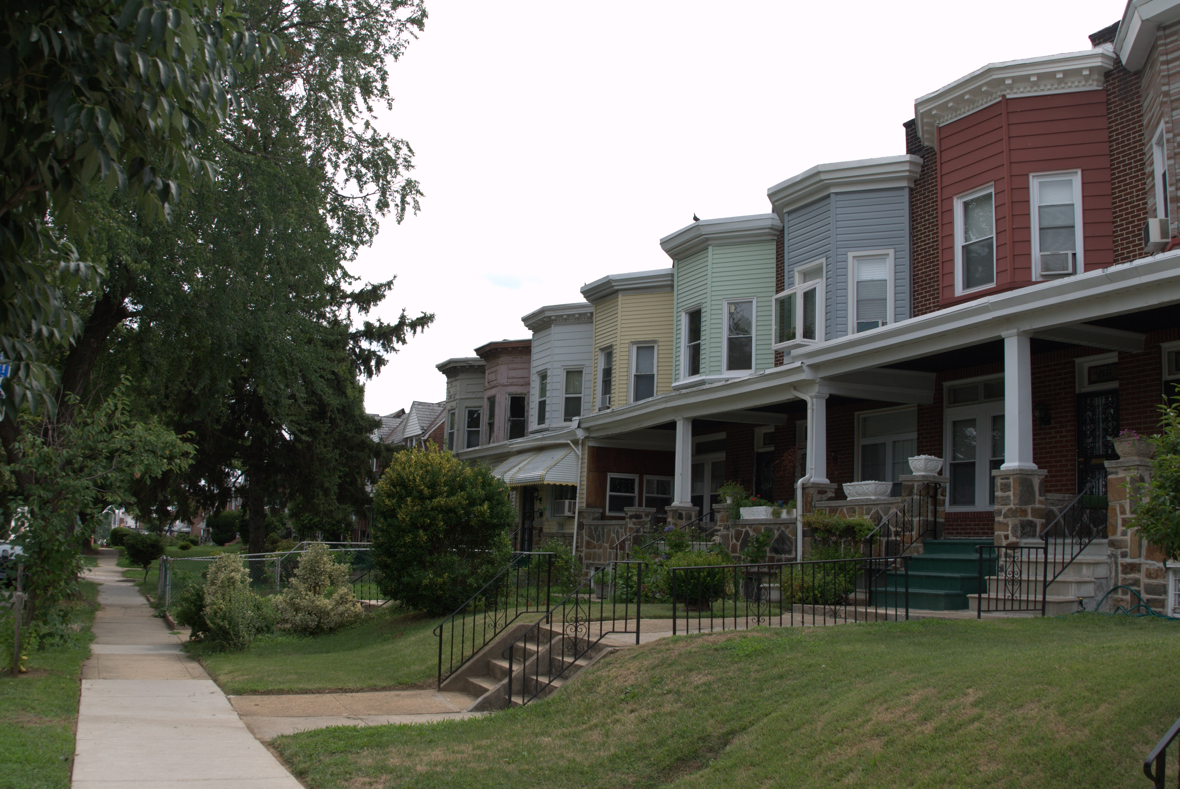 Row houses in the 700 block of Whitmore Avenue within the NRHP-listed Edmondson Avenue Historic District in Baltimore, Maryland.